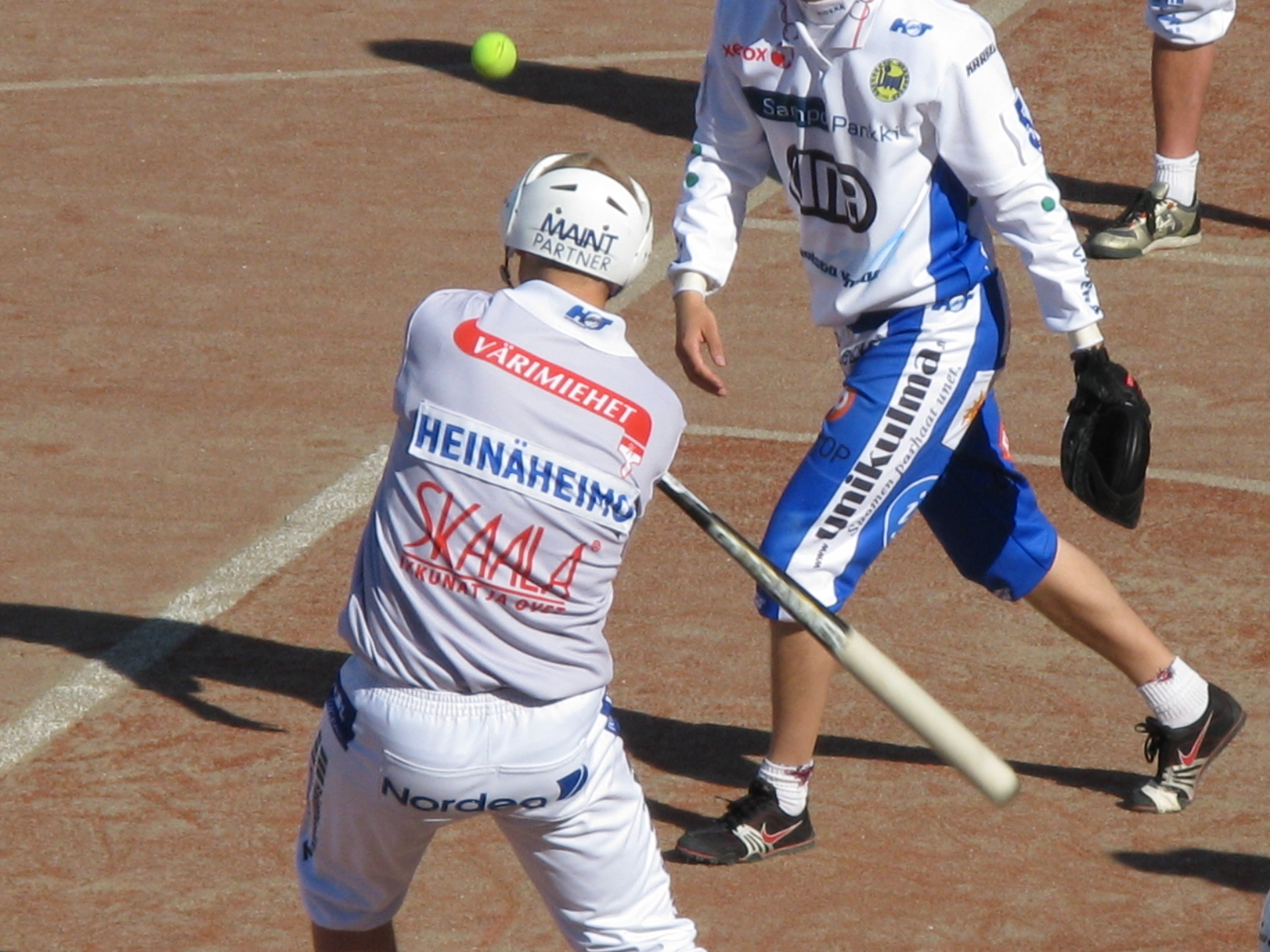 Harri Heinäheimo batting at a pesäpallo match Oulun Lippo vs. Nurmon Jymy at Oulu Pesäpallo Stadium in Oulu, Finland